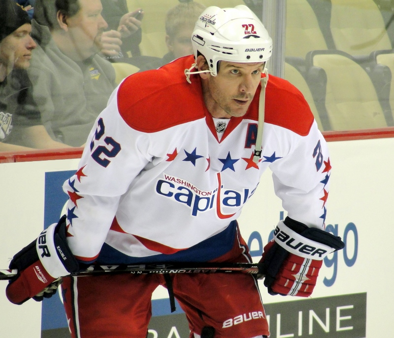 Mike Knuble, Washington Capitals, prior to a game against the Pittsburgh Penguins January 22, 2012 at Consol Energy Center in Pittsburgh, PA.